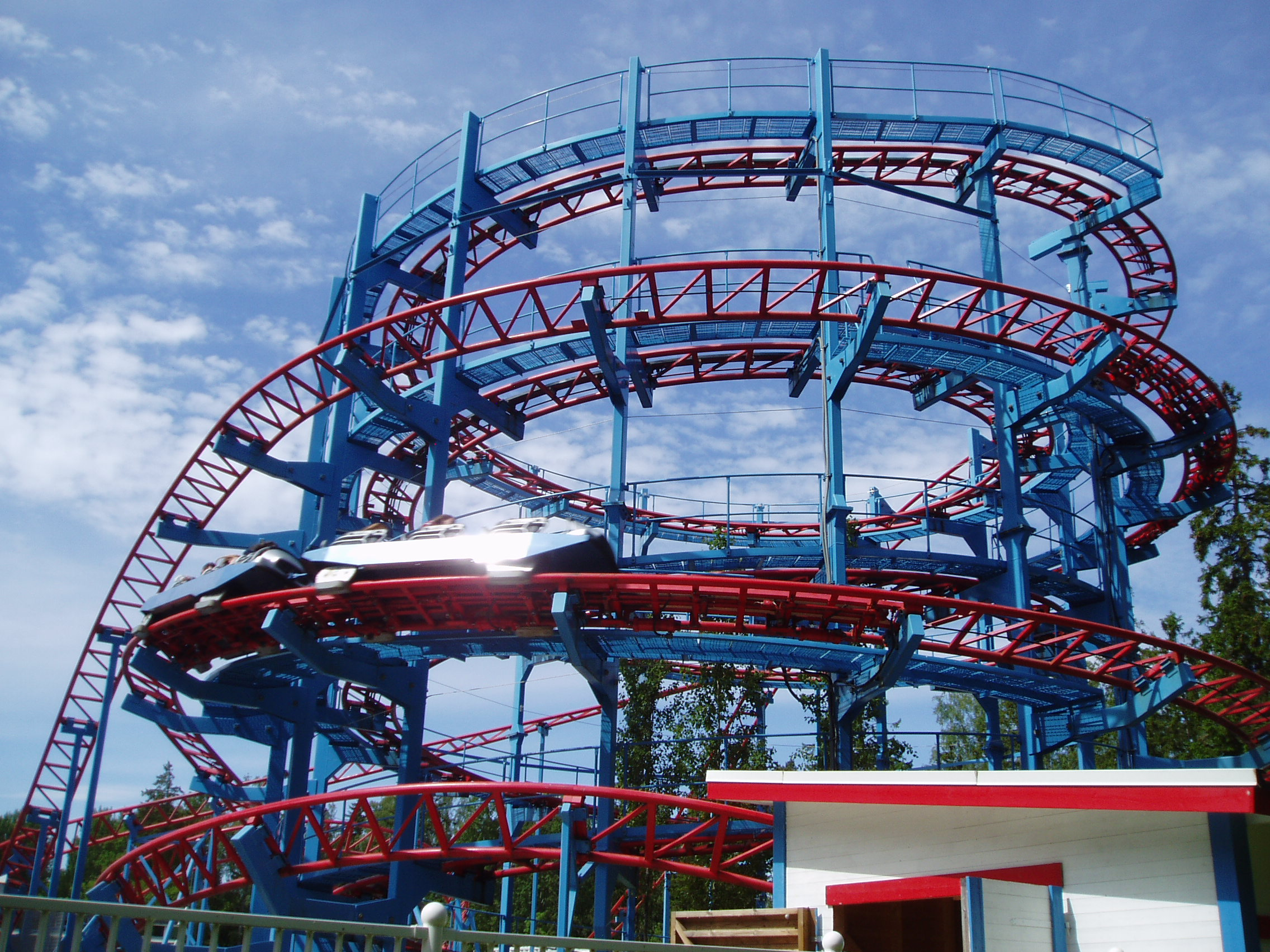 Roller coaster at Furuviksparken